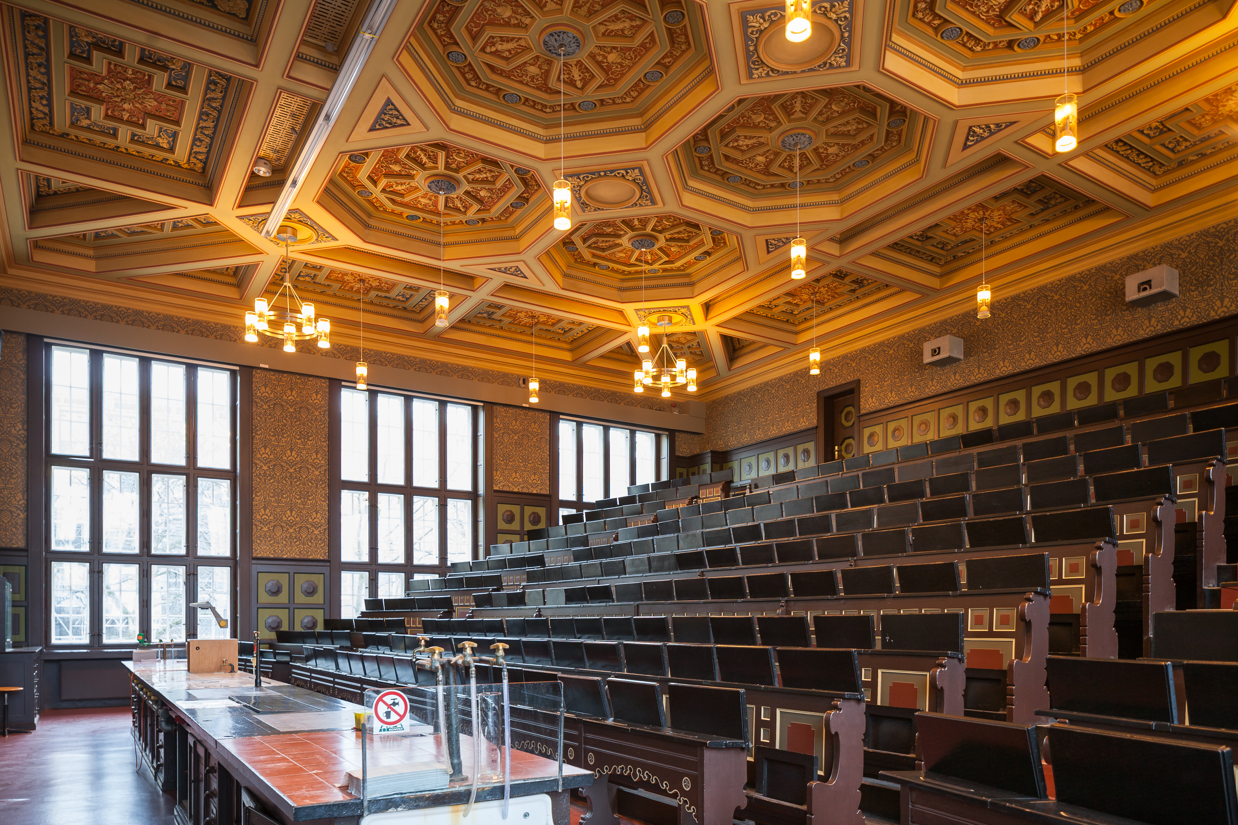 "Kali-Chemie-Hörsaal", lecture hall in the institute for inorganic chemistry at the university of Hanover, Germany.